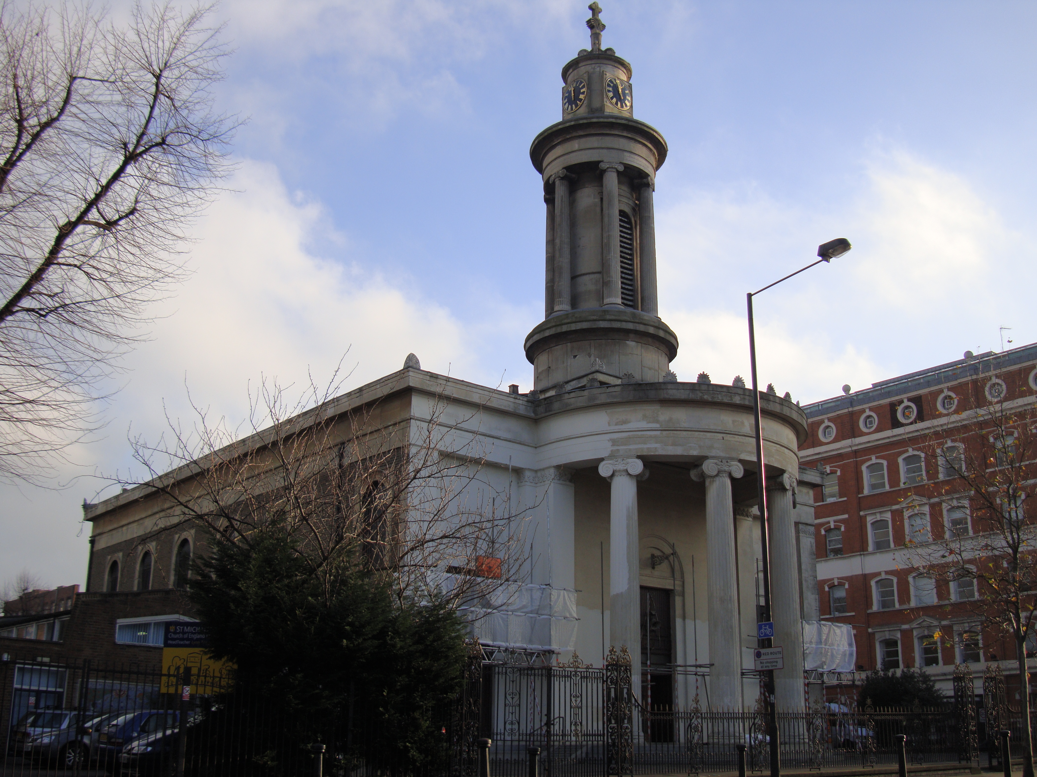 Photograph of the Greek Orthodox Cathedral of All Saints, Camden Town, London